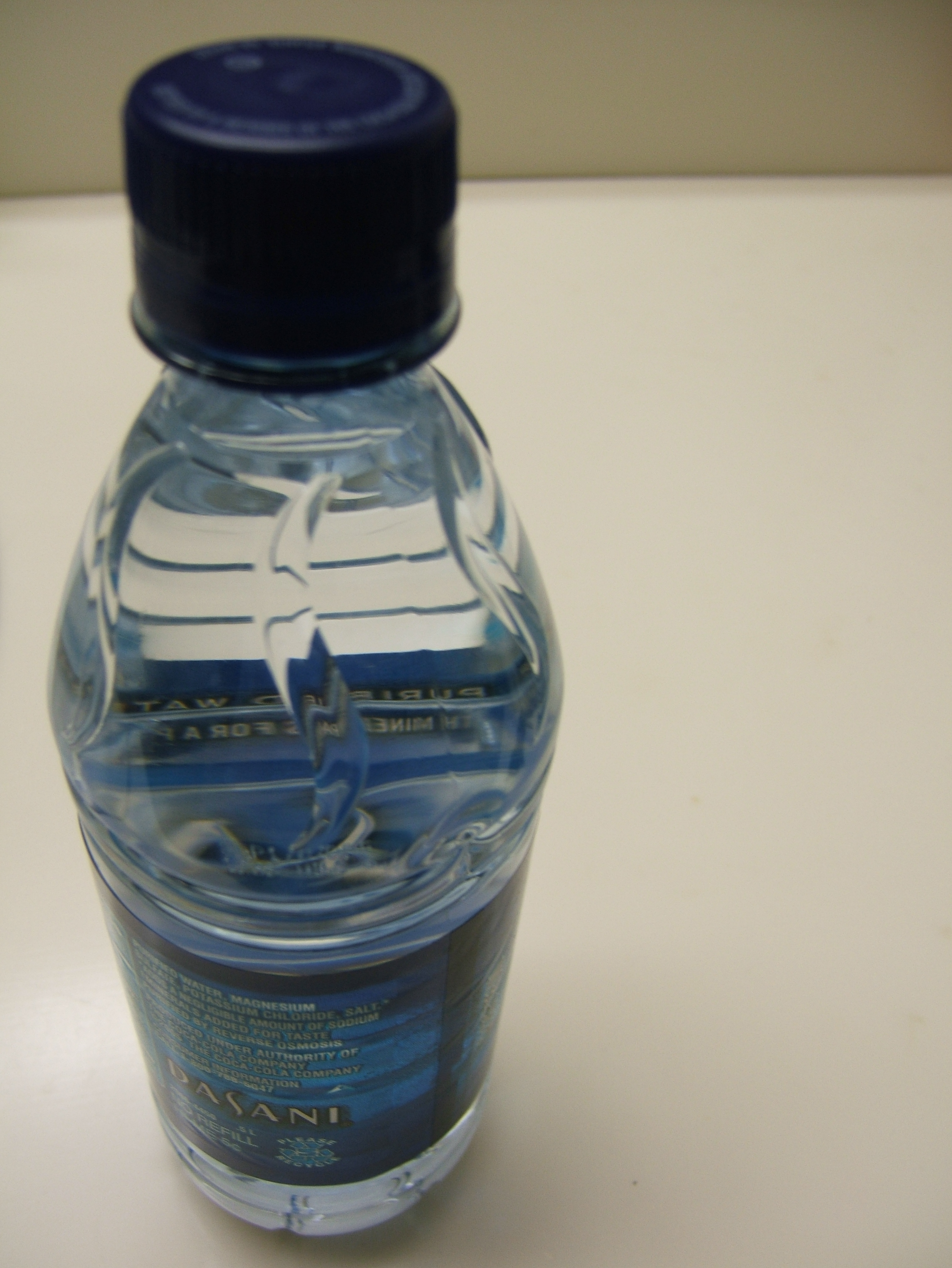 Dasani bottled water. Imported from